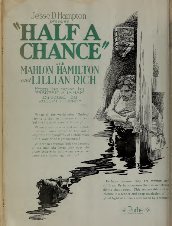 Half a Chance directed by Robert Thornby 1920